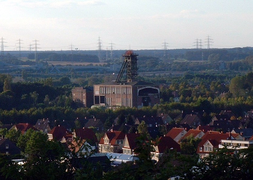 Schacht Franz, part of coal mine Heinrich Robert in Hamm, Germany. Established in 1923, blown up in December 2003.